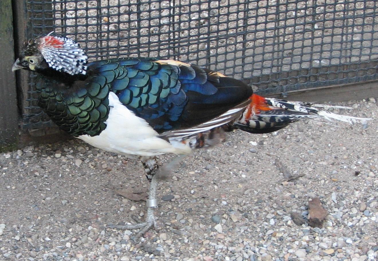 Lady Amhersts Pheasant (Chrysolophus amherstiae)